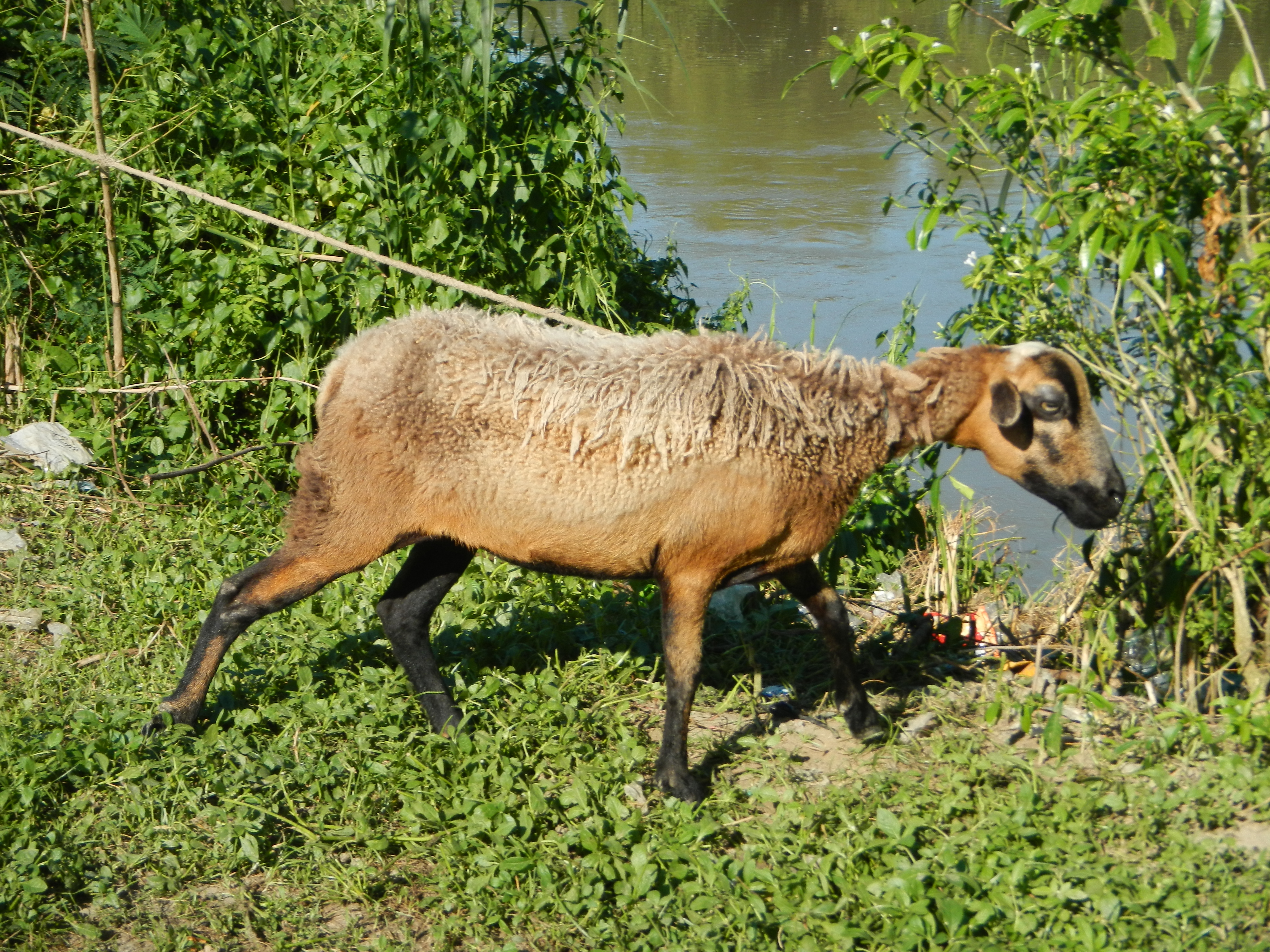 Sheep–goat hybrid, Landscapes, scenery of Pampanga River surrounding on one side, along Barrio Road of Barangay Santa Rita, San Luis, Pampanga, gateway to the Welcome arch of neighbor next Town's 1st Barangay of San Simon, Pampanga Barangay San Pedro, San Simon, Pampanga - with plantations of Tiger Grass locally called "Tambo".